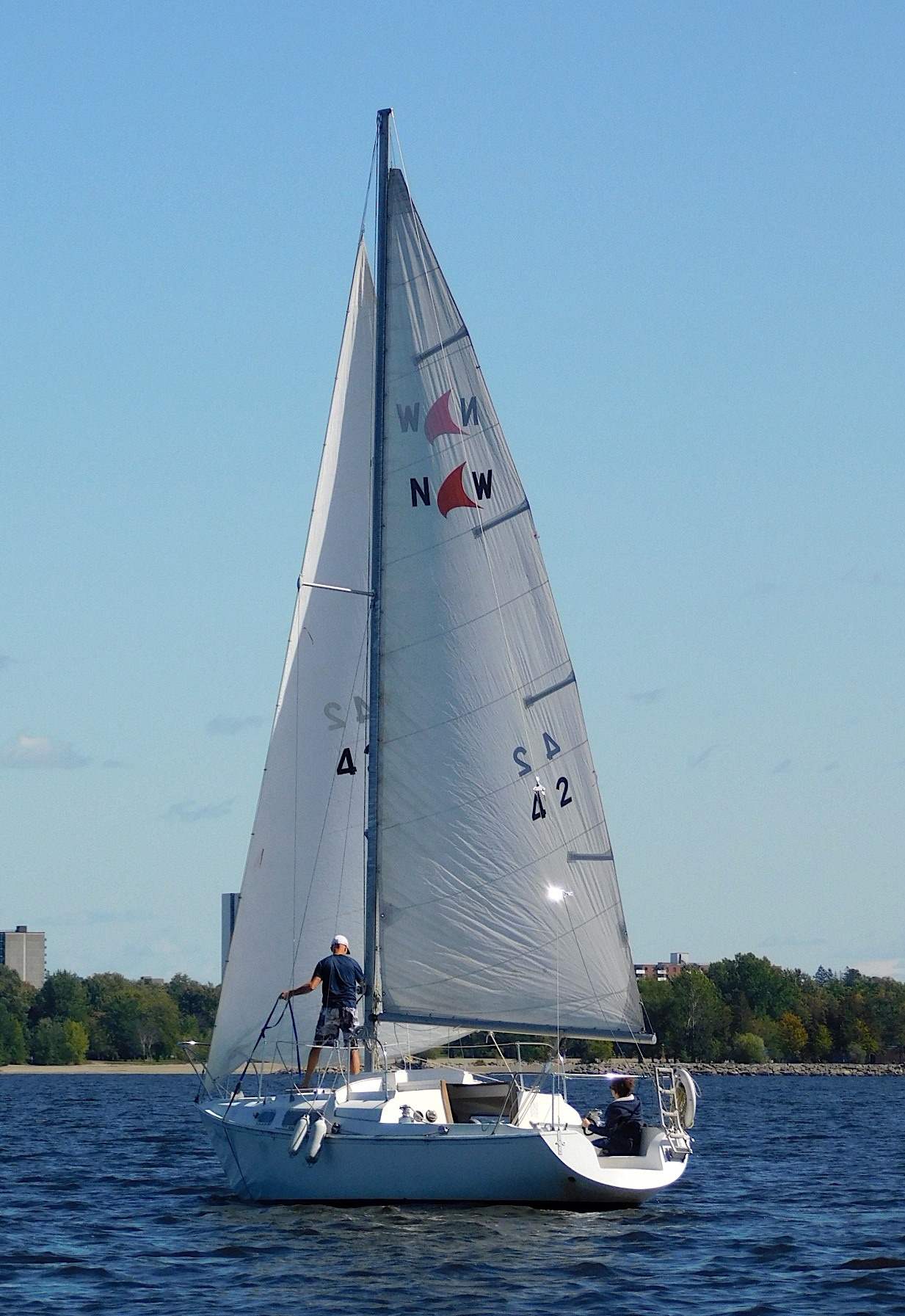 A Paceship Northwind 29 sailboat named Moon-Spinner.